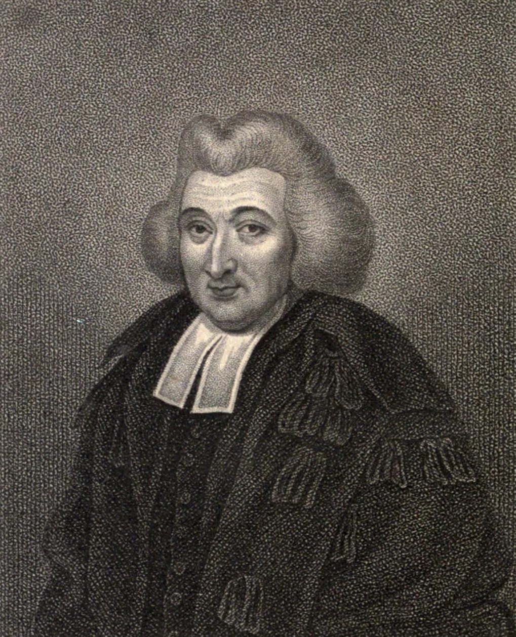 Portrait of George Campbell.